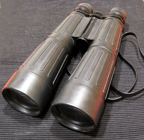 Binoculars for night vision, 9x63.